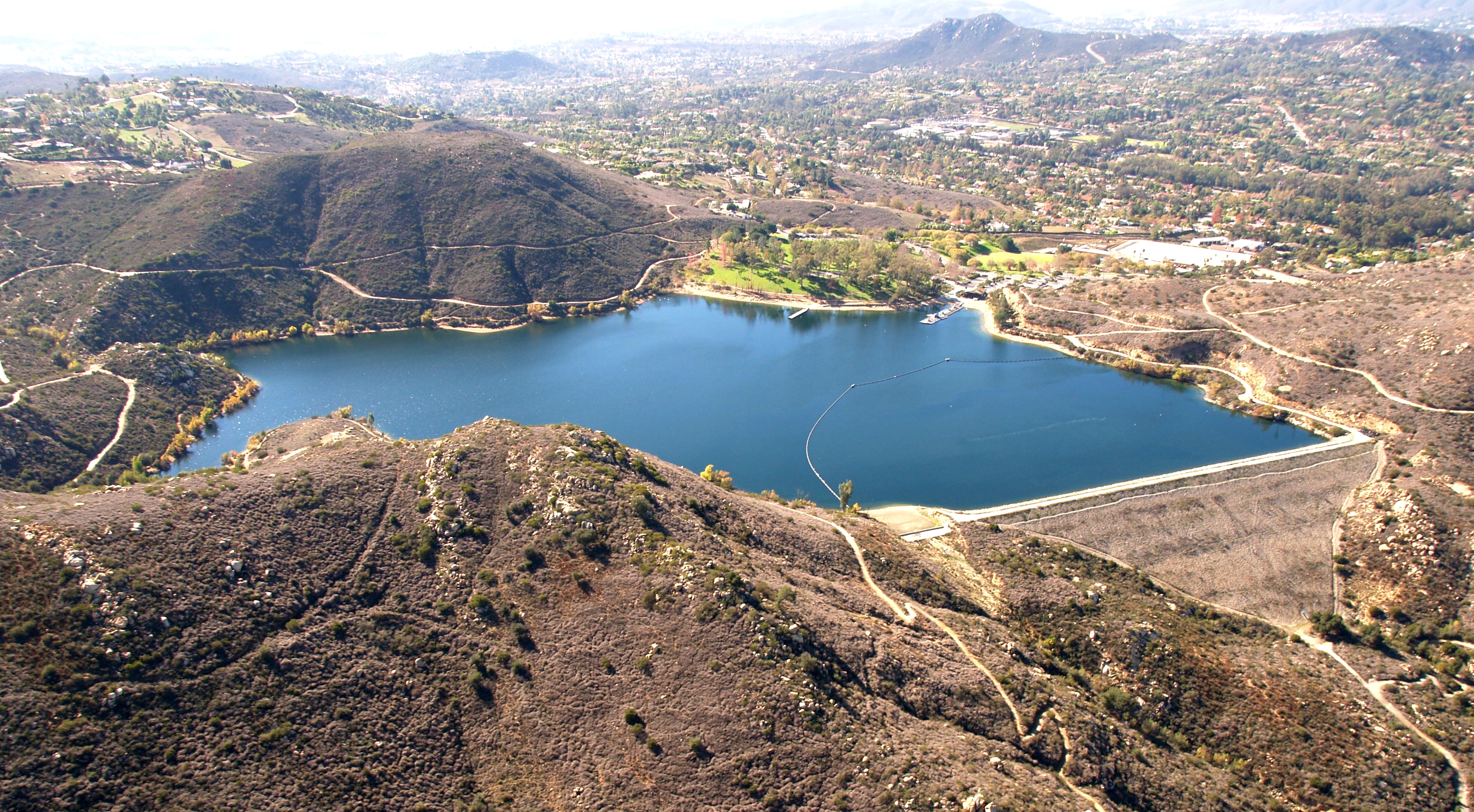 Lake Poway reservoir — in Poway, San Diego County, Southern California. Photo taken from a helicopter. Please acknowledge "Phil Konstantin" as the creator of this photograph.